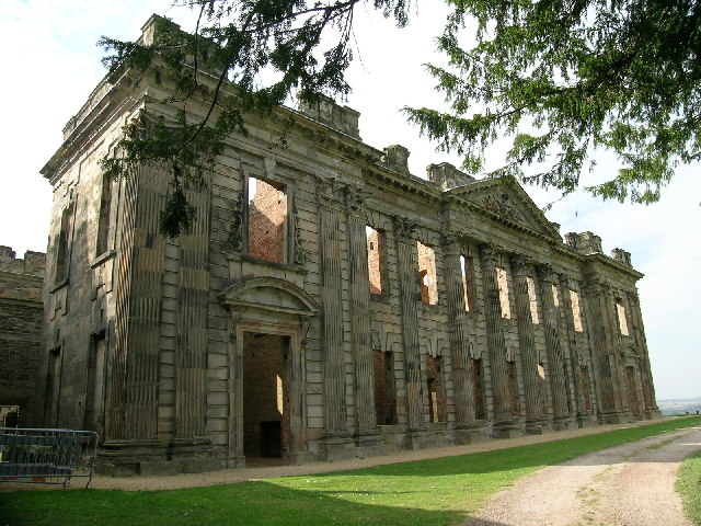 Sutton Scarsdale Hall. The ruin of Sutton Scarsdale Hall. This side of the building faces across the valley to the East towards the town of Bolsover. Behind the House is the small village of Sutton Scarsdale.